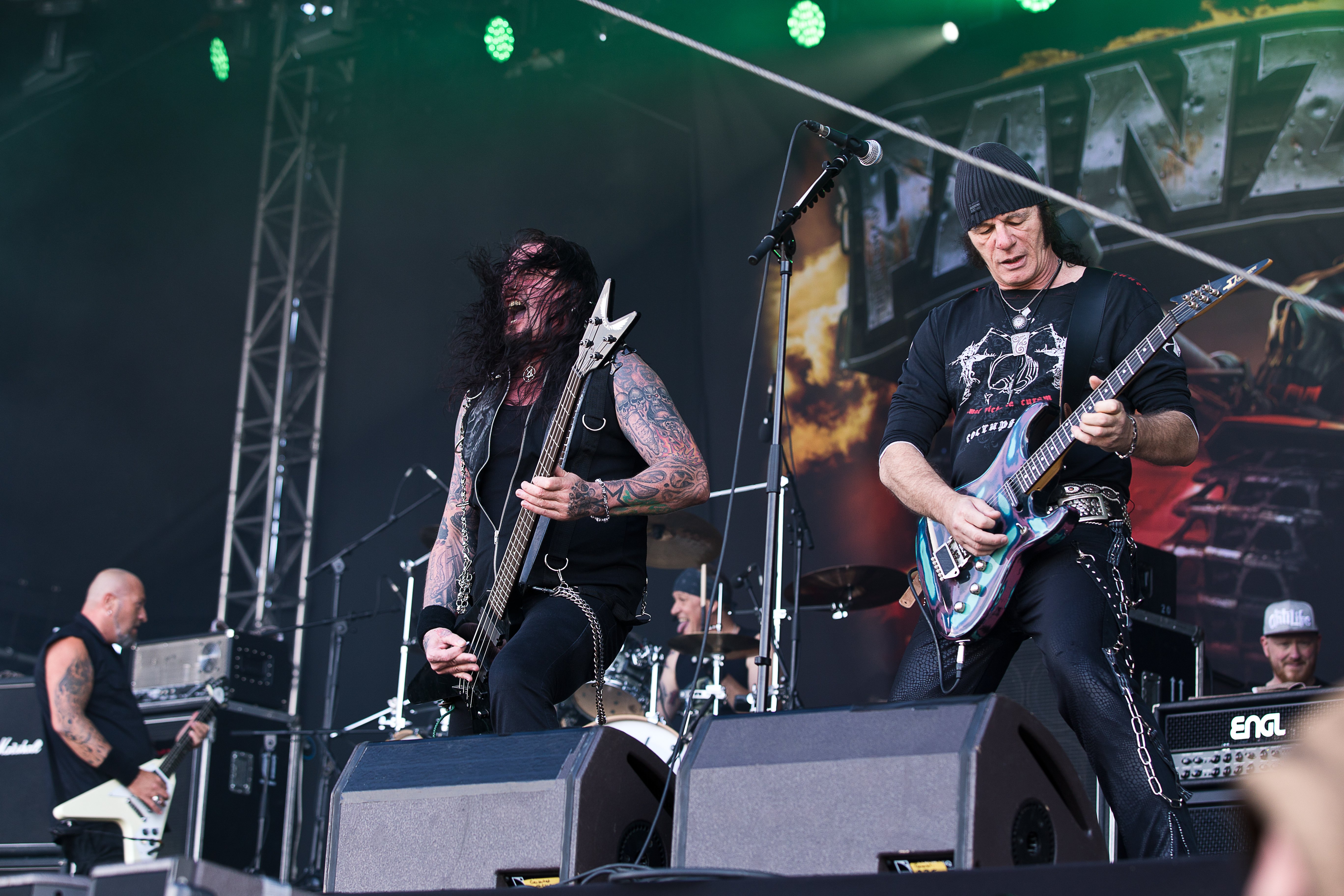 The German heavy metal band Panzer at the Rockharz Open Air 2015 in Ballenstedt/Germany.